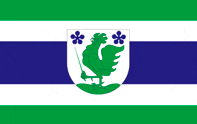 Flag of Põlva town, Estonia.